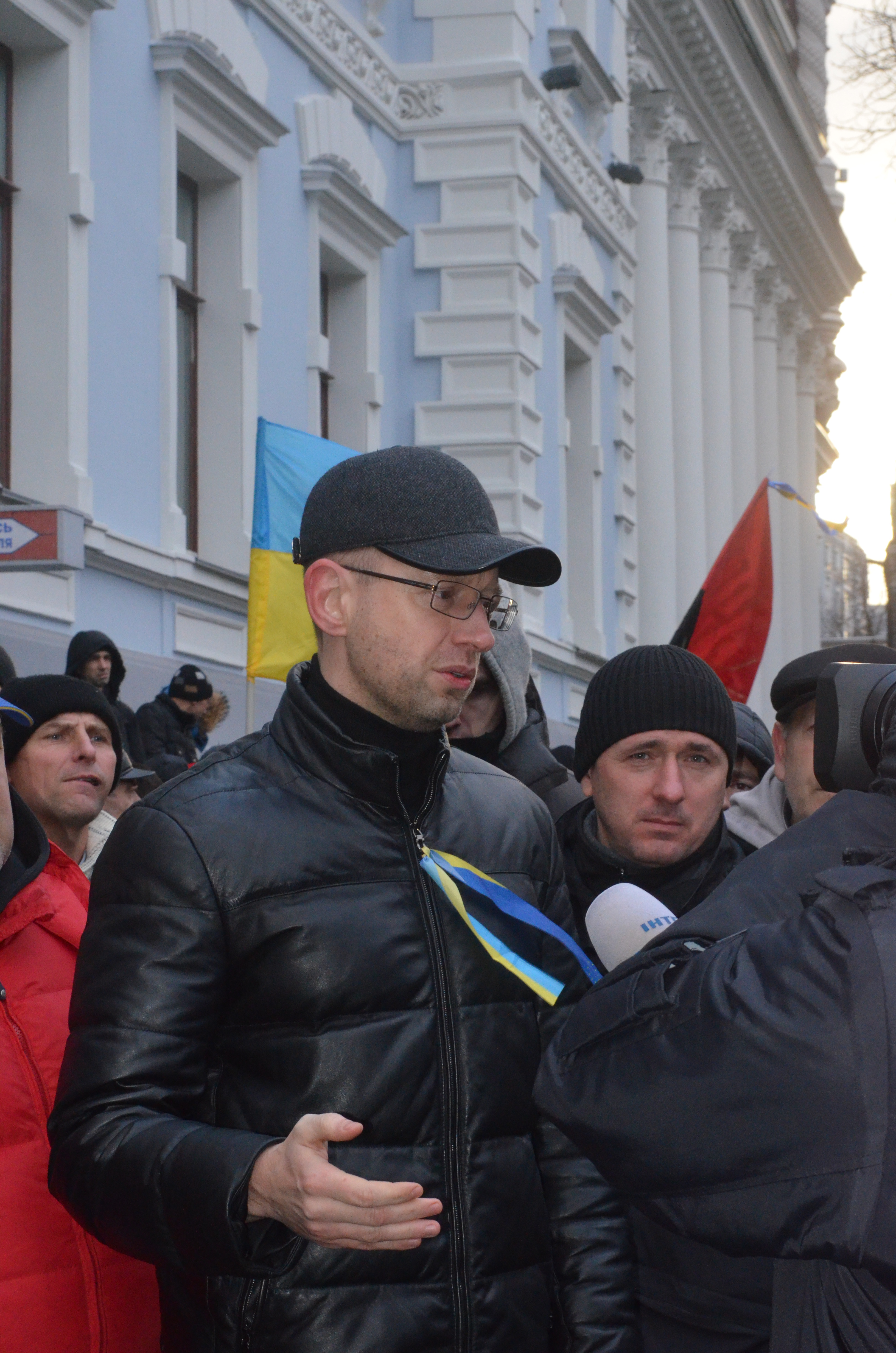 Yatsenyuk, Cabinet of Ministers Blockage